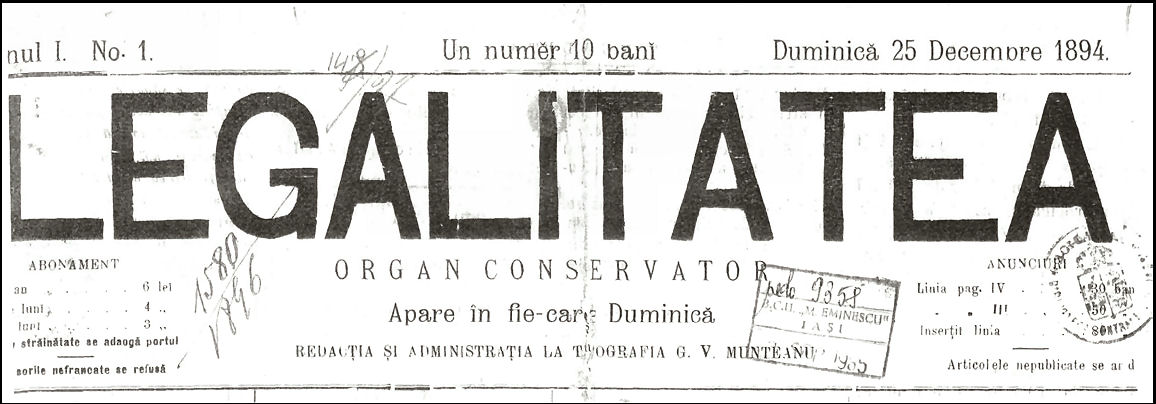 Logo of the Romanian newspaper Legalitatea, as used in 1894